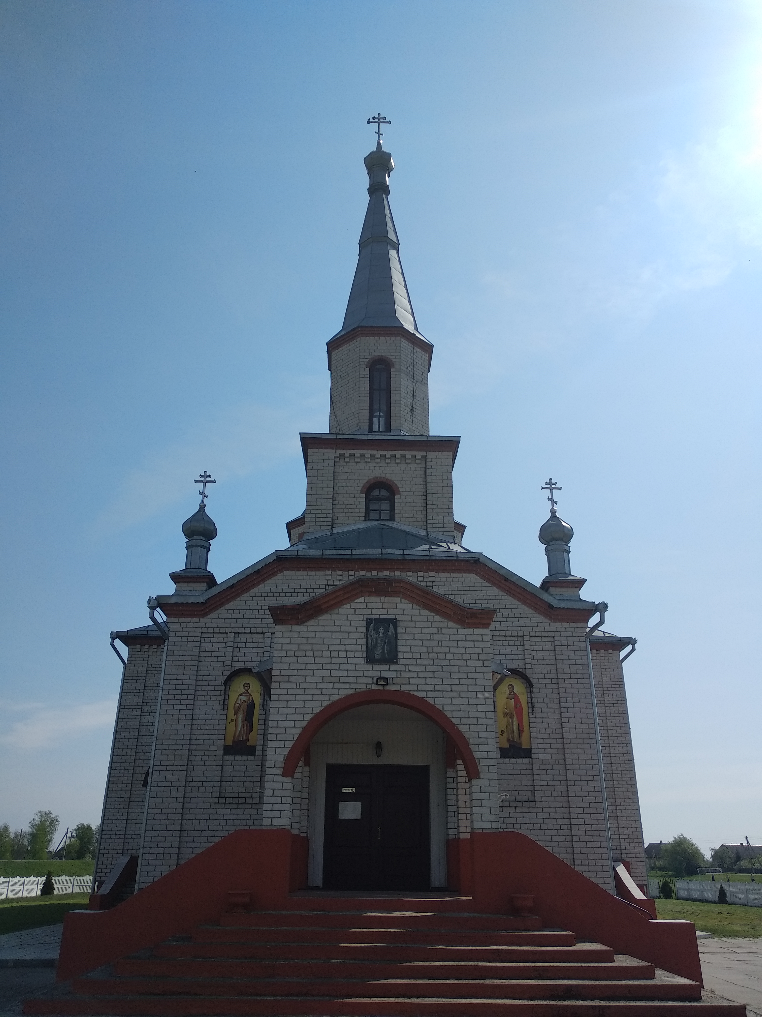 The Church of St. Michael in Plieščycy village of Pinsk district, Belarus